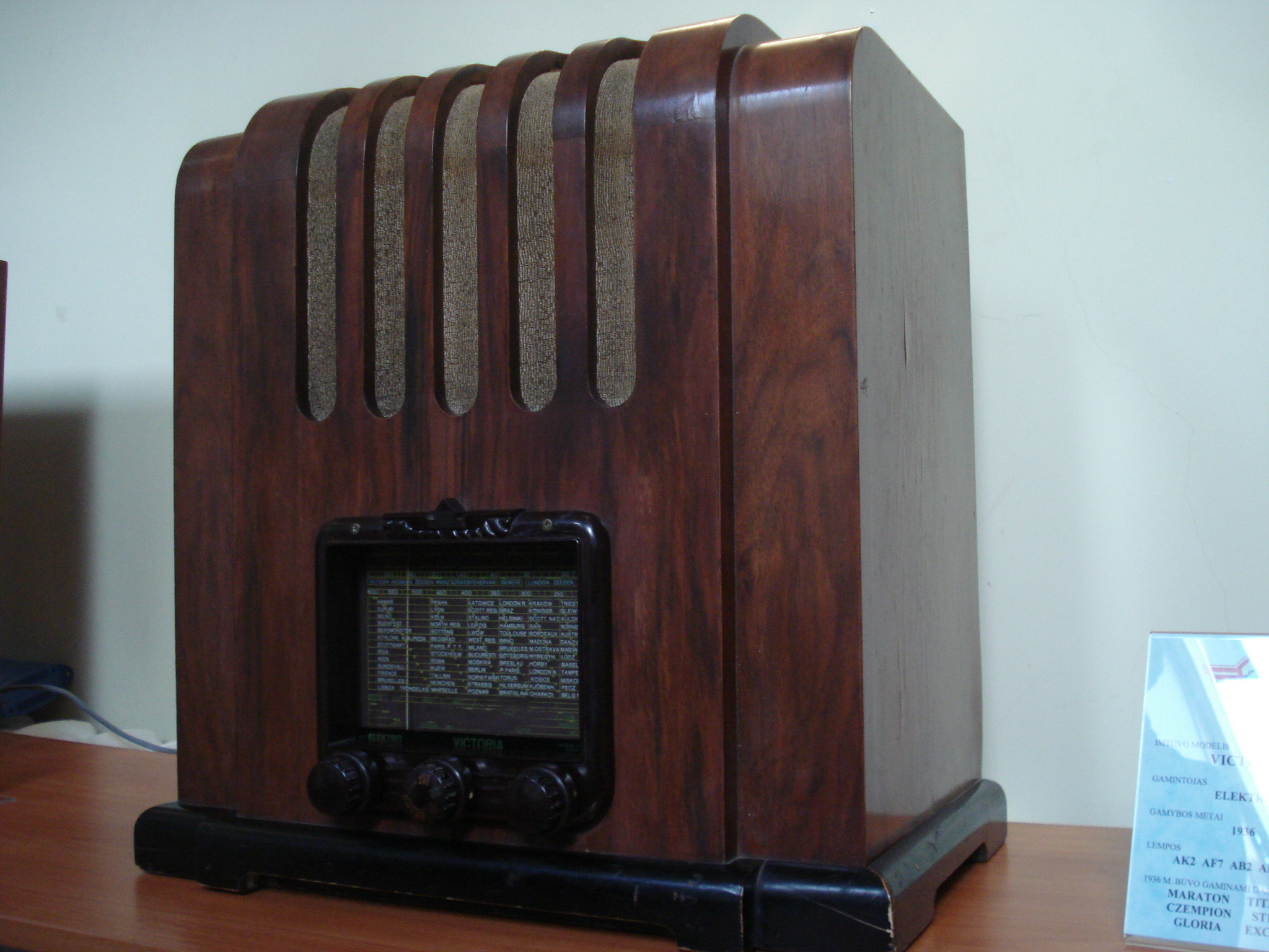 Radio receiver "Victoria" manufactured by Wilno Radio Factory "Elektrit". 1936